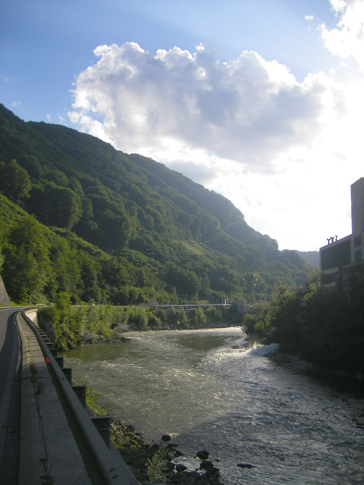 The Sava at Trbovlje power plant